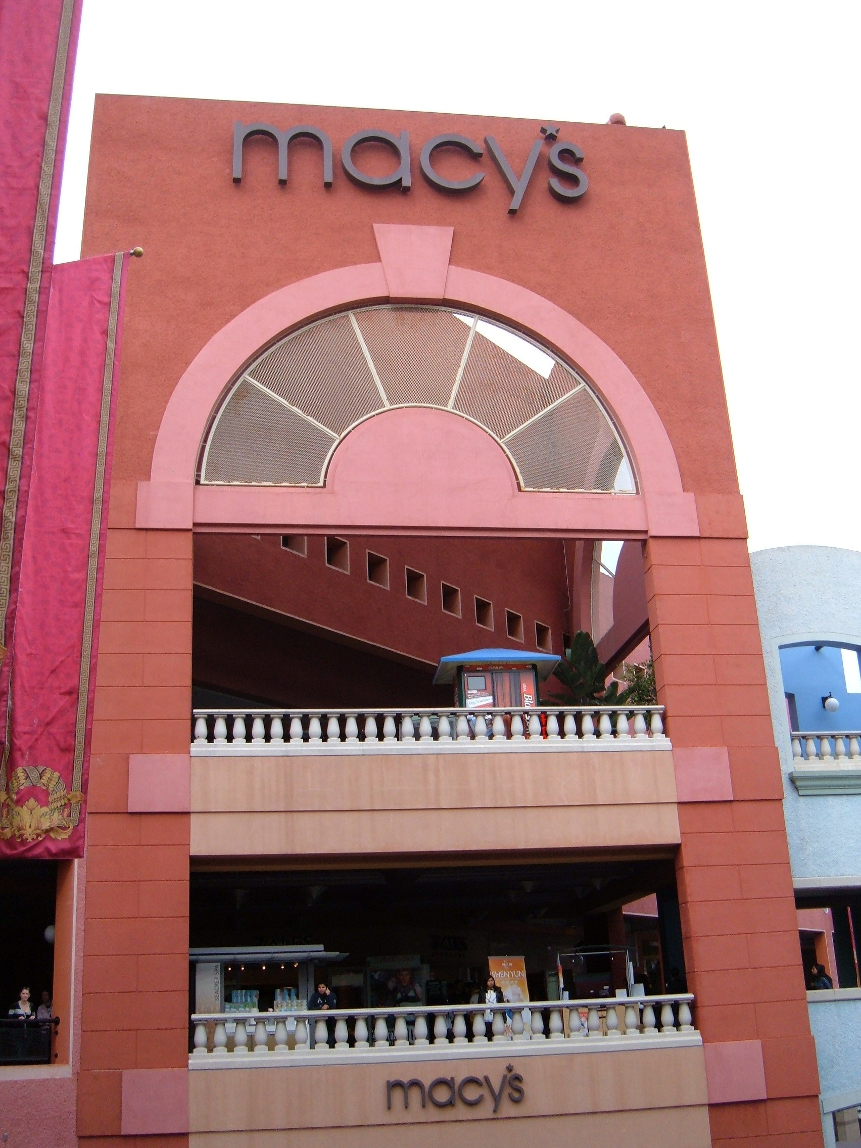 Macy's at Westfield Horton Plaza — in Downtown San Diego, California.